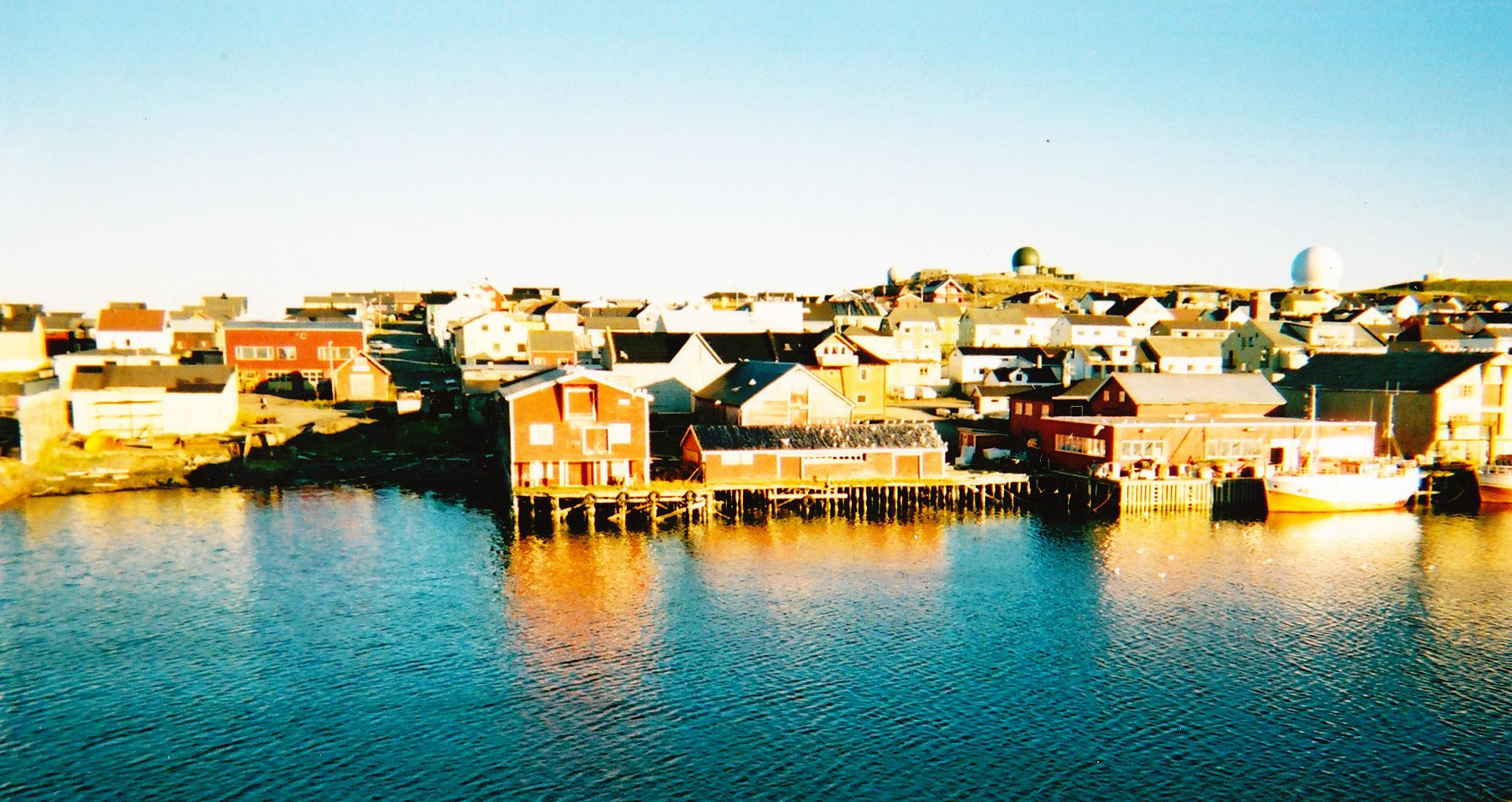 The northern Norwegian port of Vardo